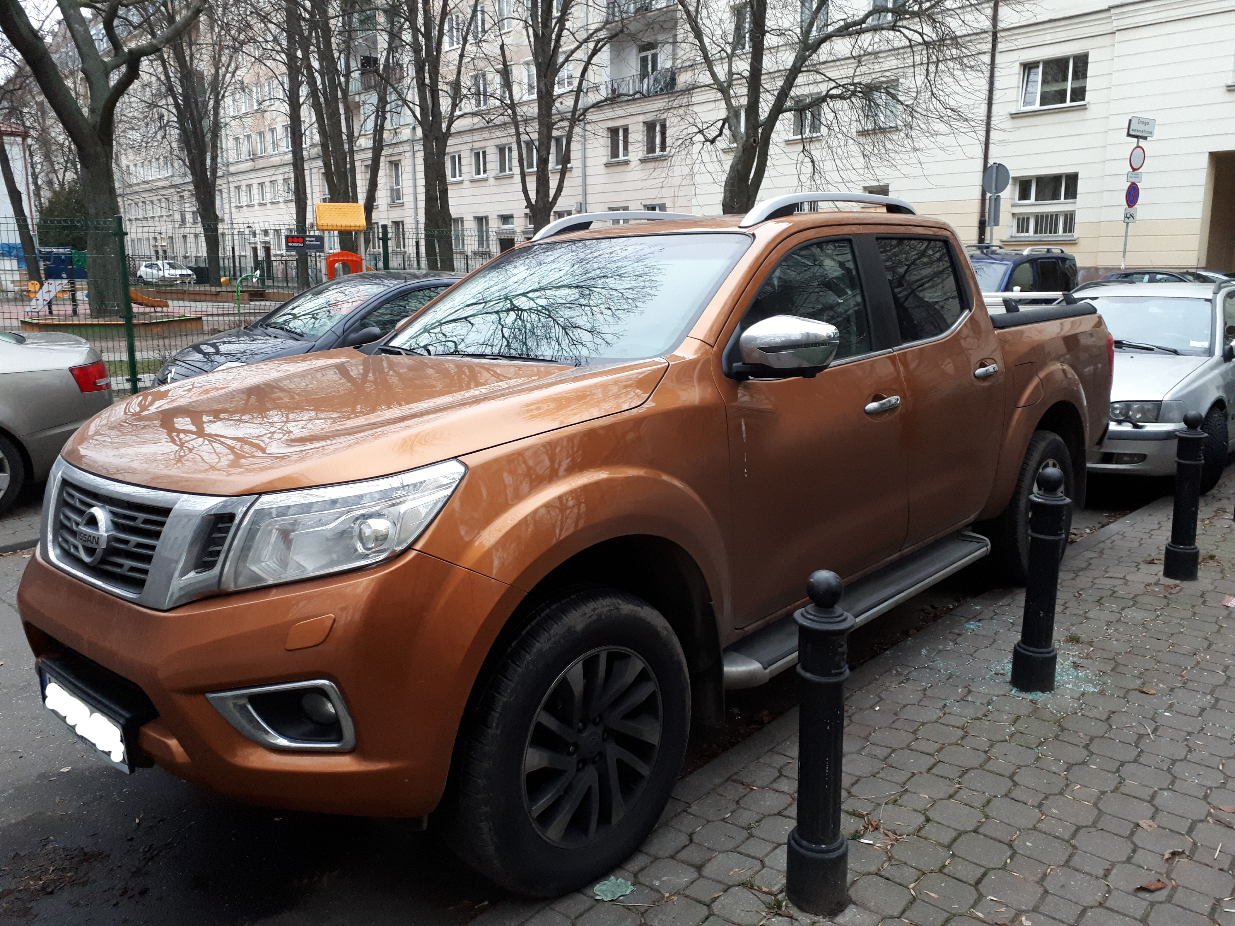 Nissan Navara in Warsaw